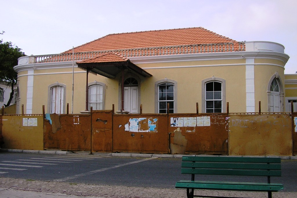 "Museu de Artesanato", arts craft museum in Mindelo town, São Vicente island, Cape Verde